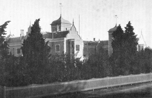 Photo of Nelson Provincial Government buildings